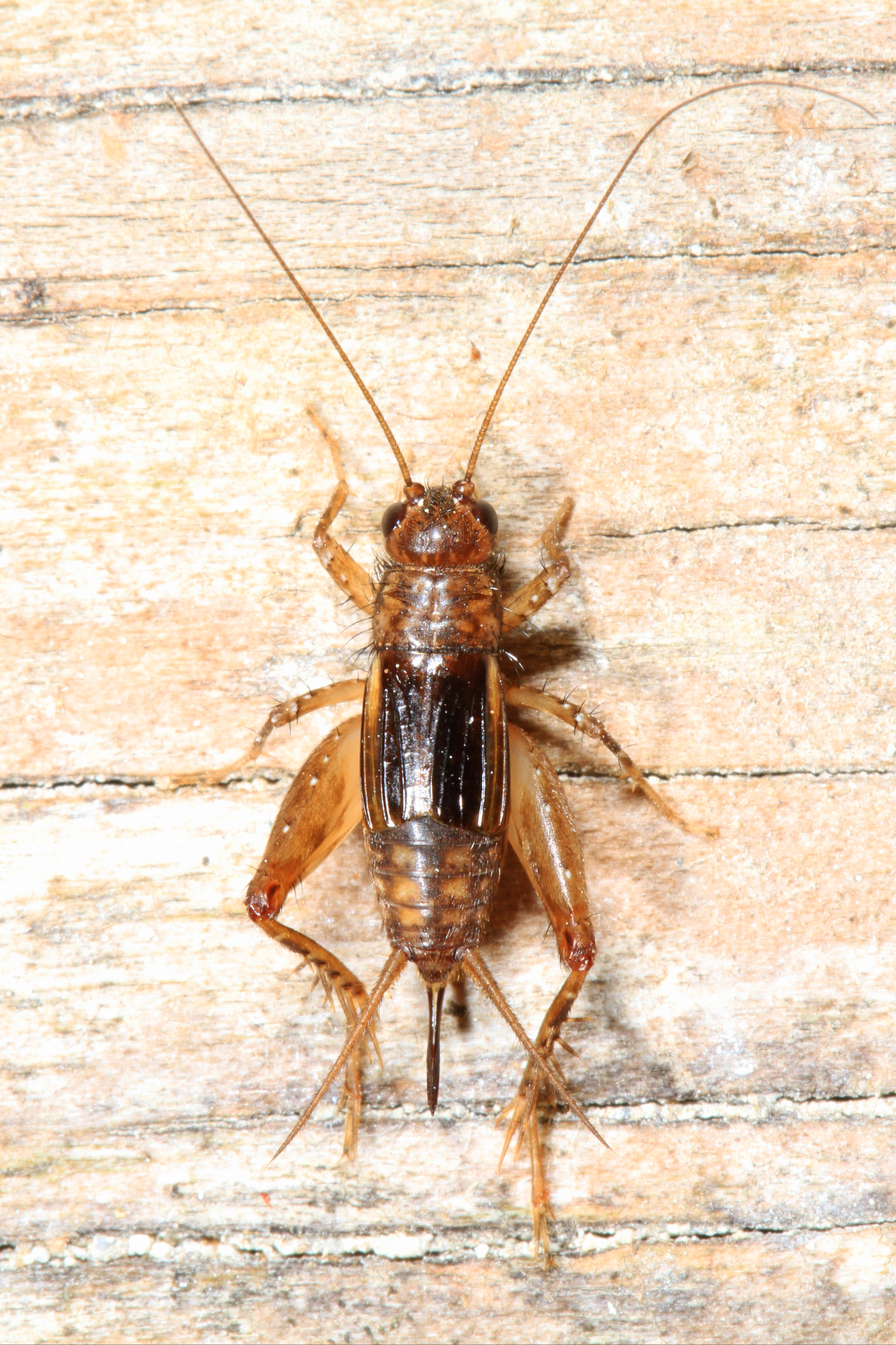 Robust Ground Cricket - Allonemobius species, Meadowood Farm SRMA, Mason Neck, Virginia.